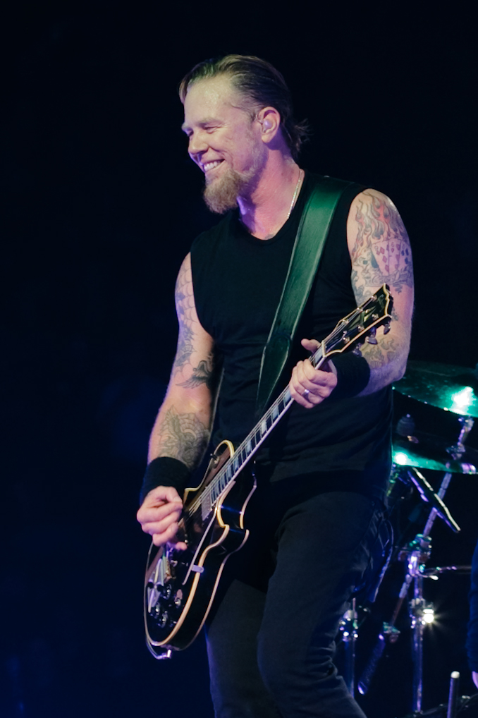 James Hetfield performing with Metallica at The O2 Arena, London, England